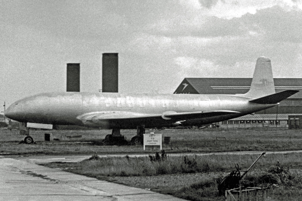 De Havilland Comet 1 G-ALYW of BOAC stored cocooned at London (Heathrow) Airport after the Comet crashes earlier that year.